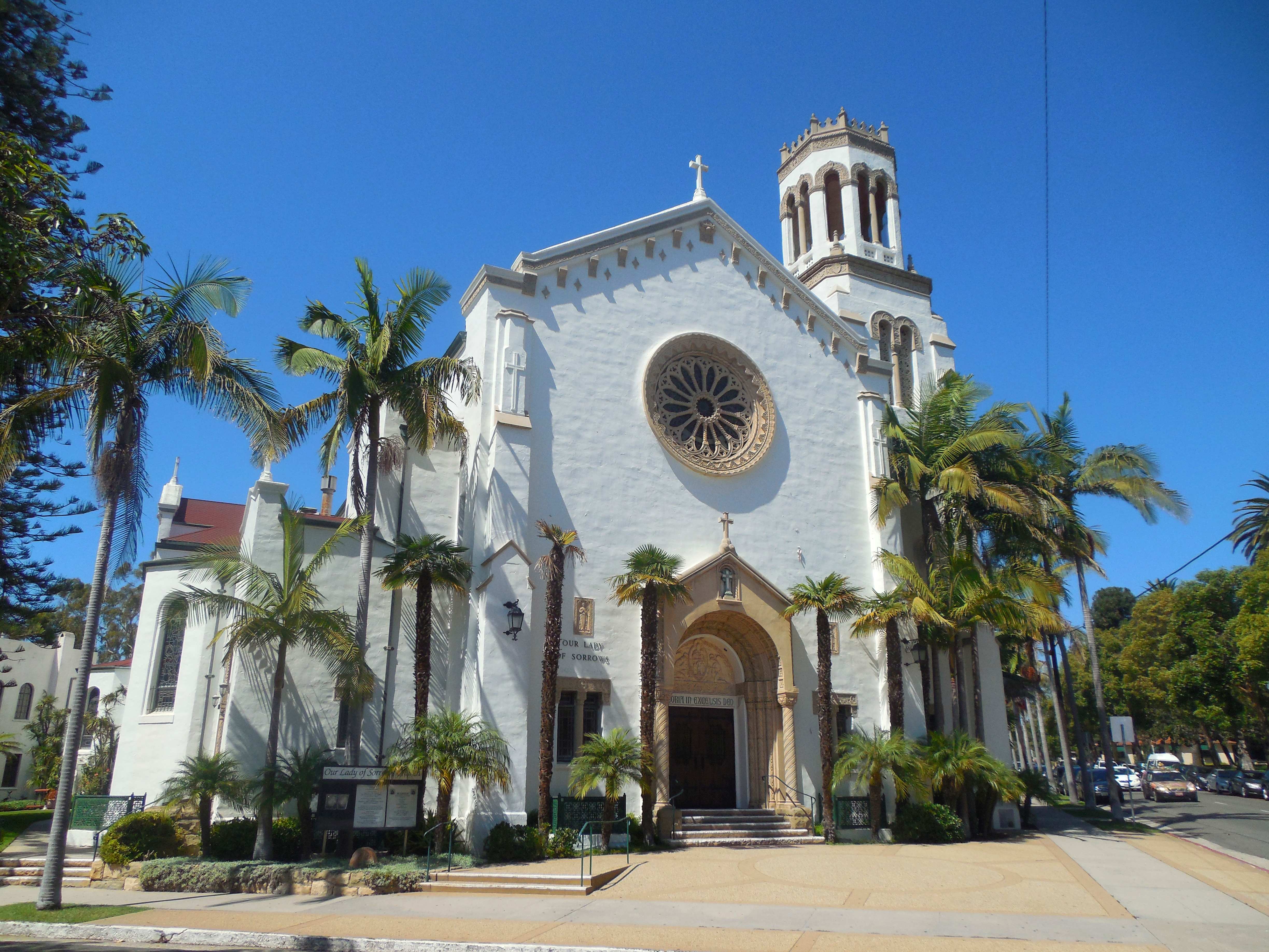 Our Lady of Sorrows Church on 21 East Sola Street (across from Alameda Park) in Santa Barbara, CA., Sep 2017. Constructed in 1929, the property became a designated landmark of the City of Santa Barbara on 17 May 2016.[1]